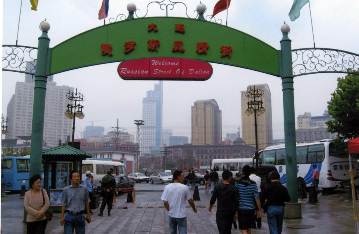 Russian Street